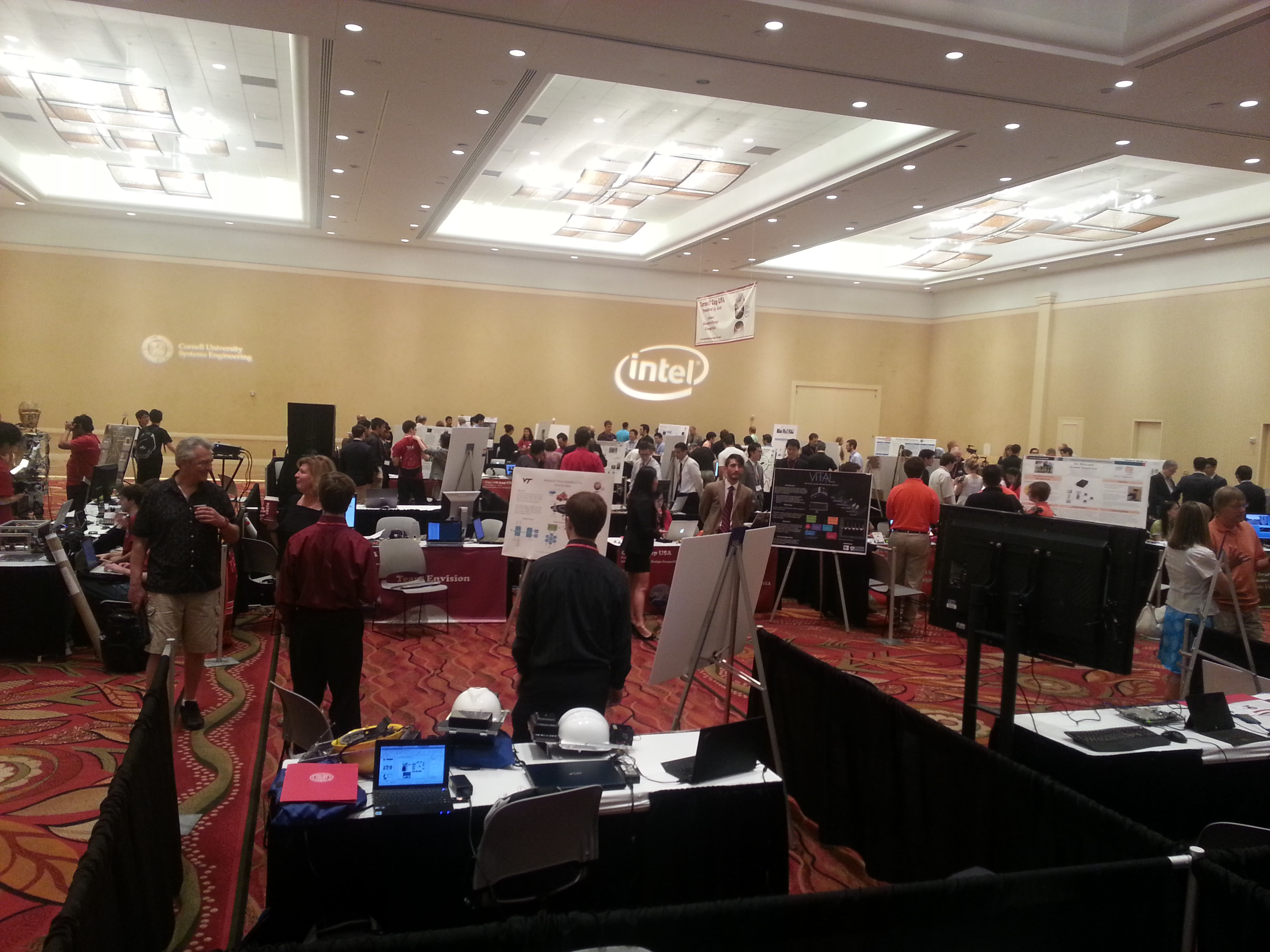 The Expo at the Cornell Cup USA 2014.